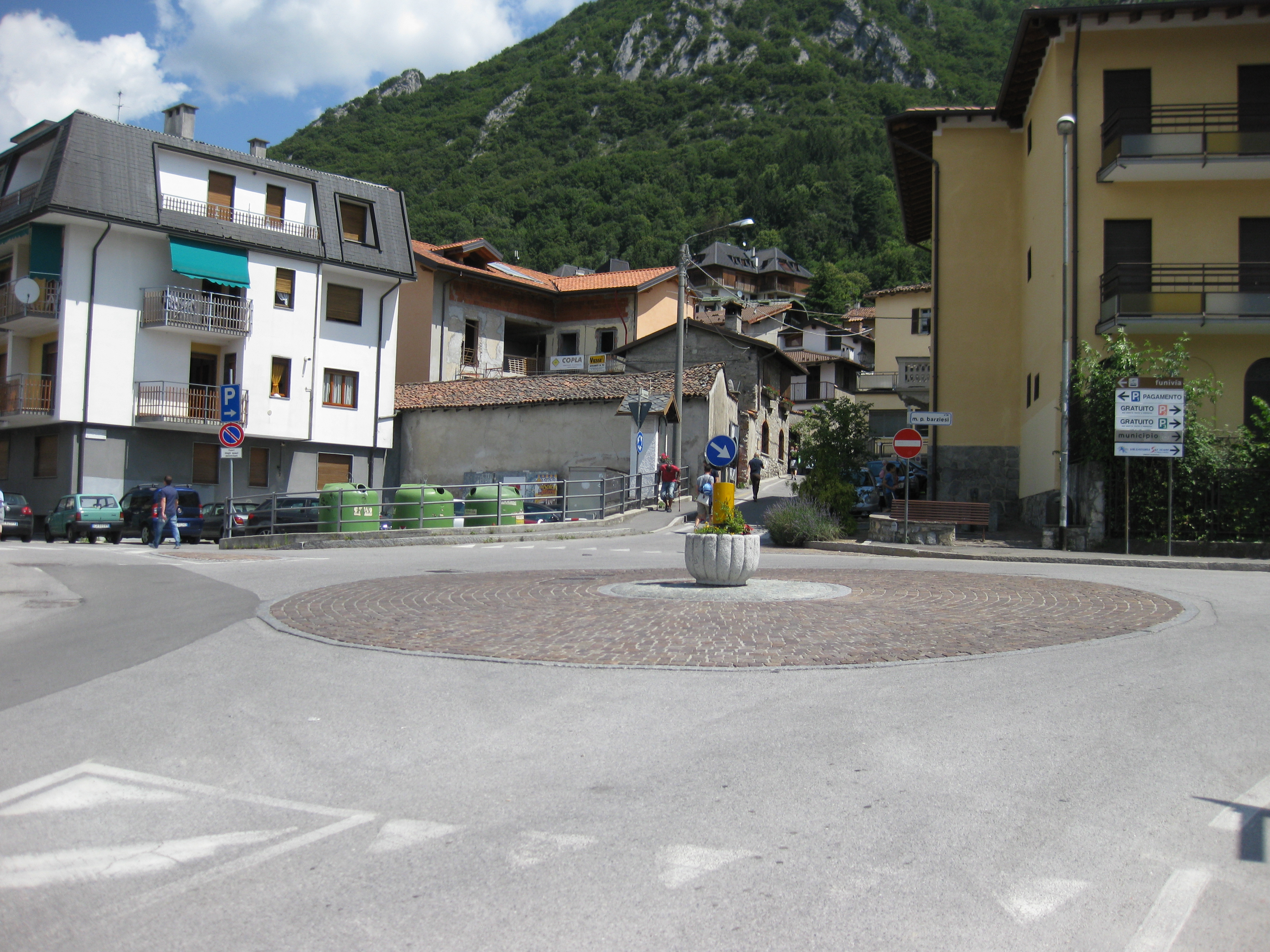 Via Martiri Patrioti Barziesi. Barzio. Italy